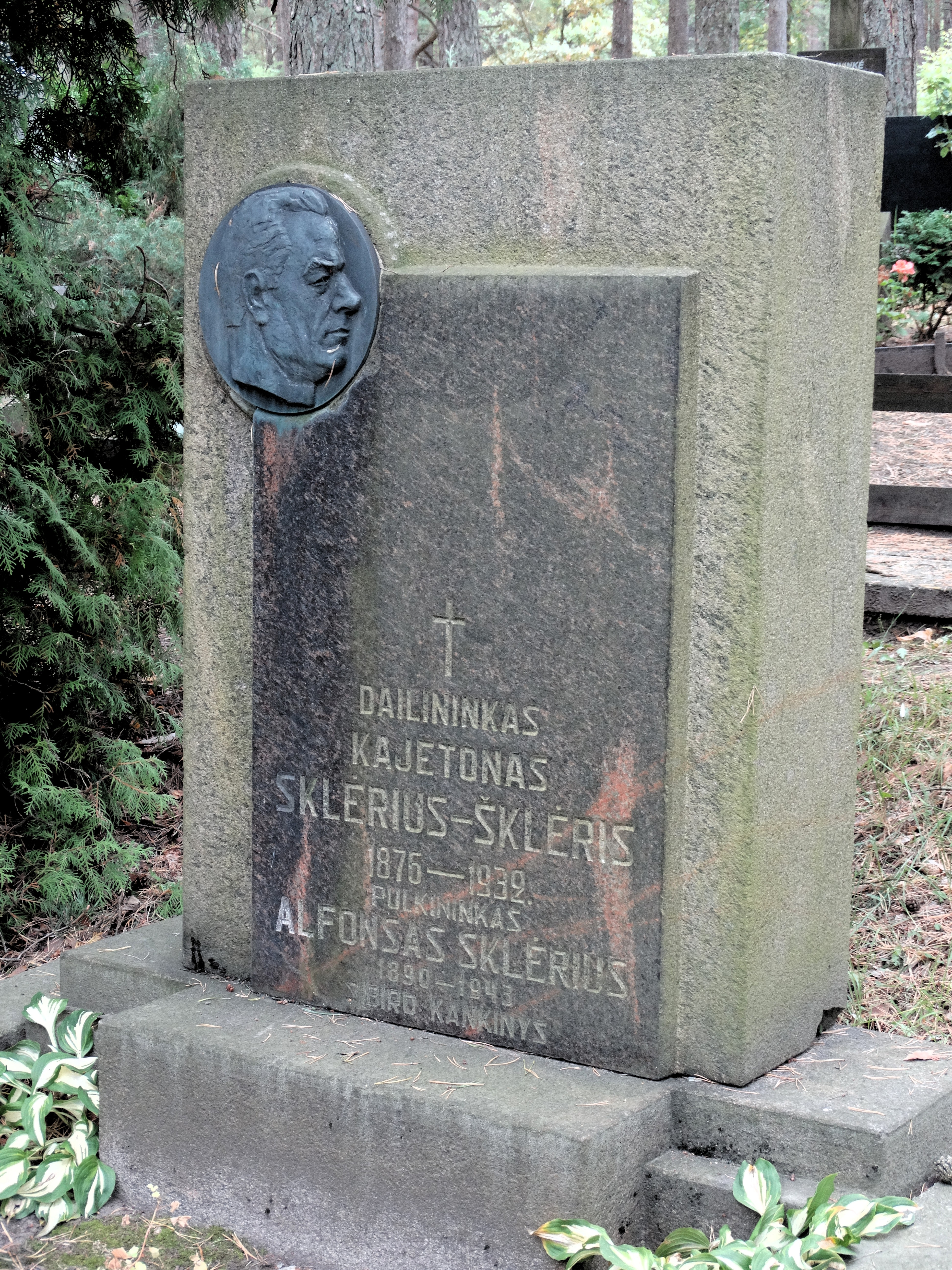 Tomb of Kajetonas Sklėrius, Petrašiūnai, Lithuania